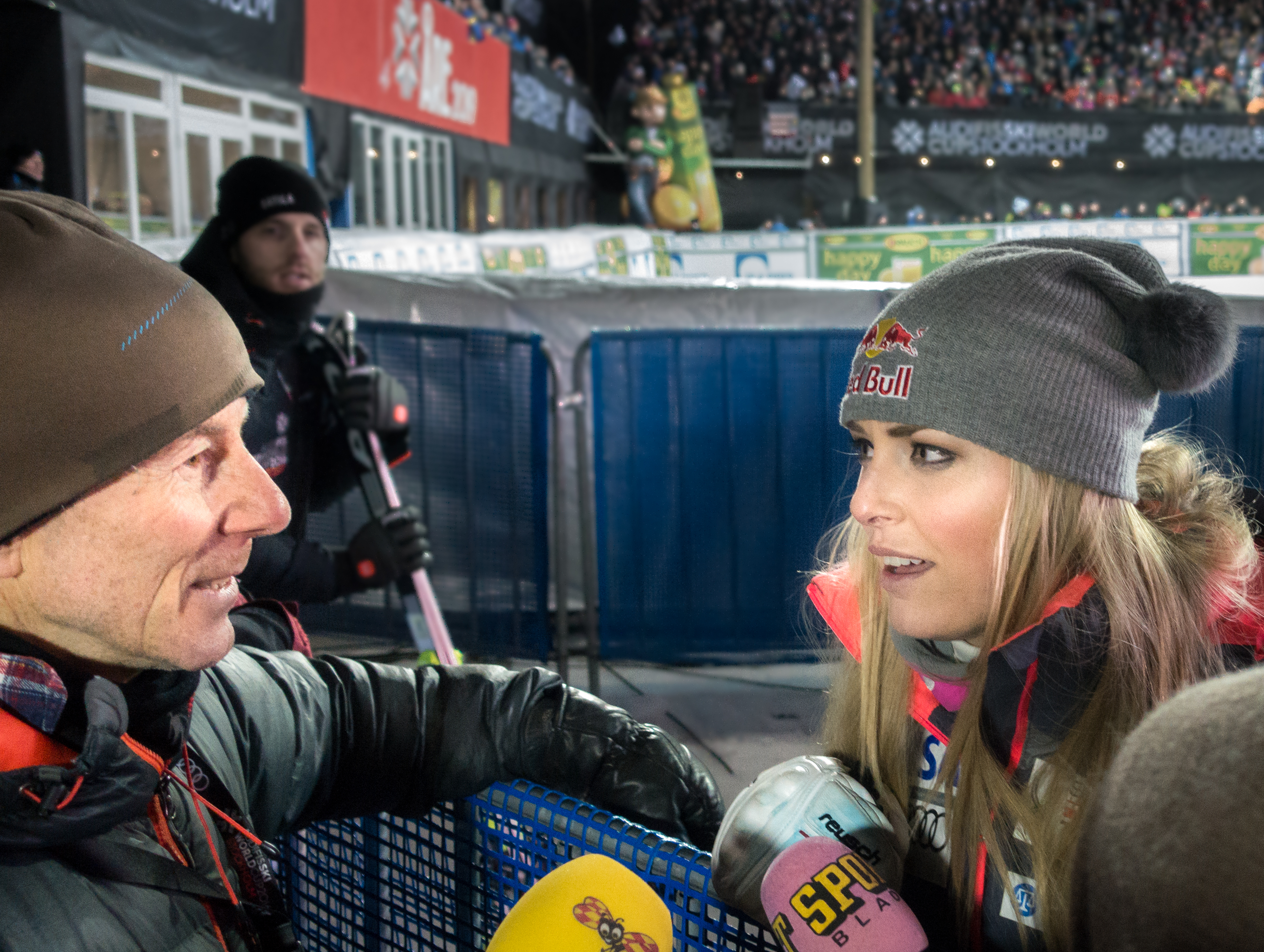 Ingemar Stenmark and Lindsey Vonn during the 2015–16 FIS Alpine Ski World Cup in Hammarbybacken in Stockholm on February 23, 2016.